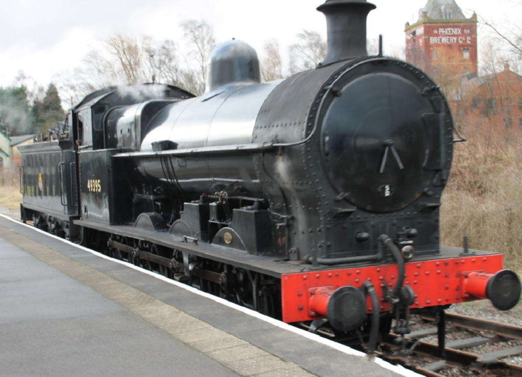 49395 on the East Lancashire Railway, prepares to run around its stock at Heywood